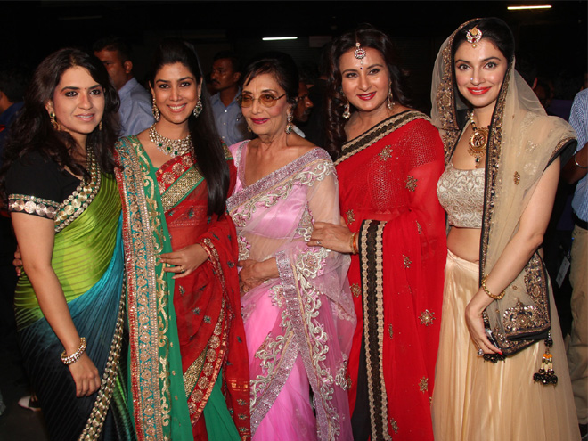 Shaina NC, Sakshi Tanwar, Sadhana, Poonam Dhillon, Divya Kumar Khosla at the Cancer Patients Aid Association's fashion show by Shaina NC